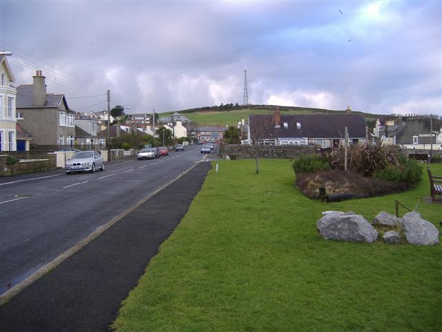 Queens Road Port St. Mary.